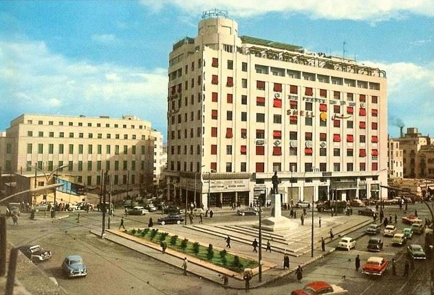 Riad Al Solh Square-Beirut-1960